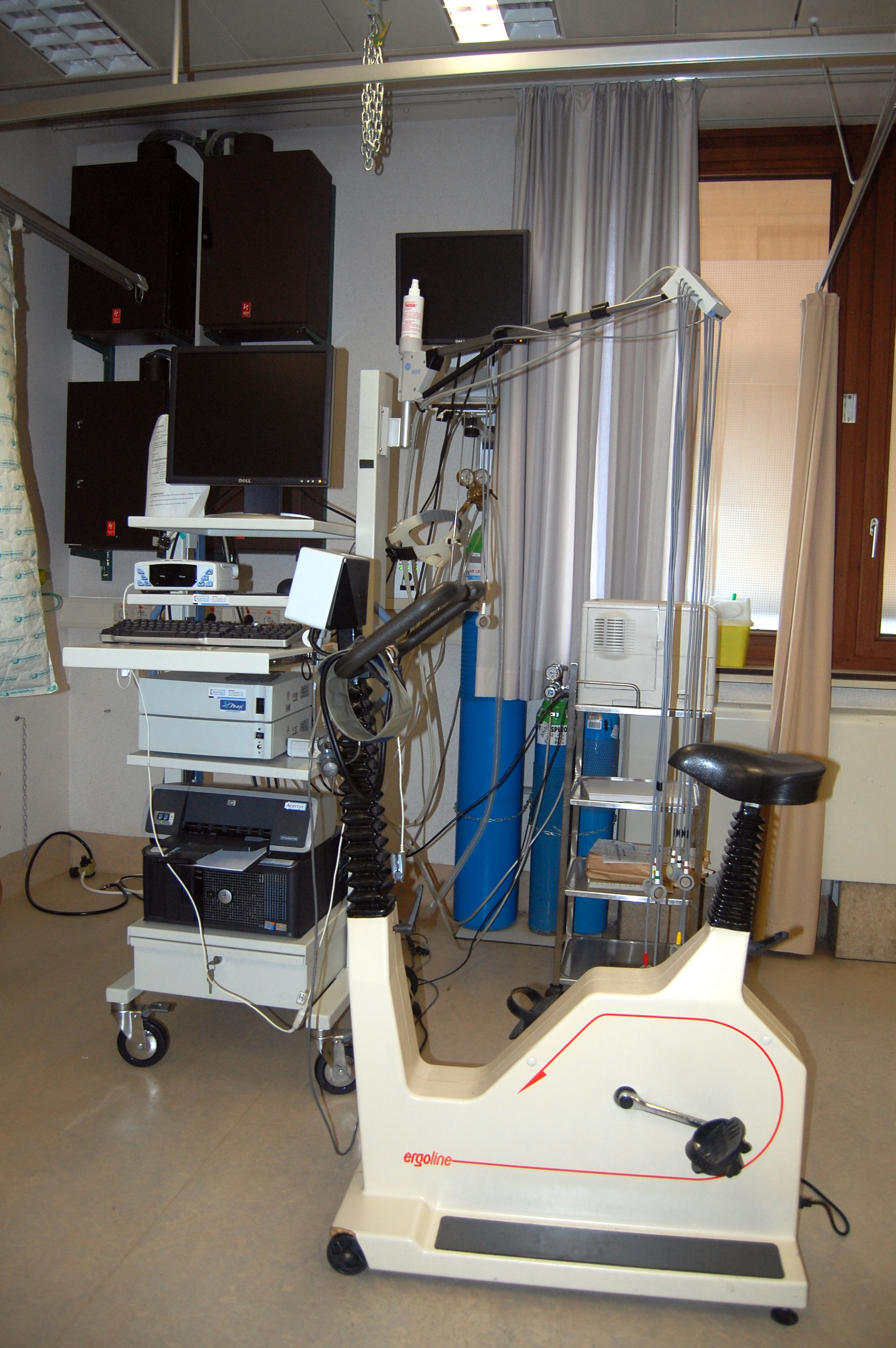 Ergospirometry setup. This medical test combines ergometry with spirometry and involves cycling under electrocardiographic monitoring while breath tests are performed.